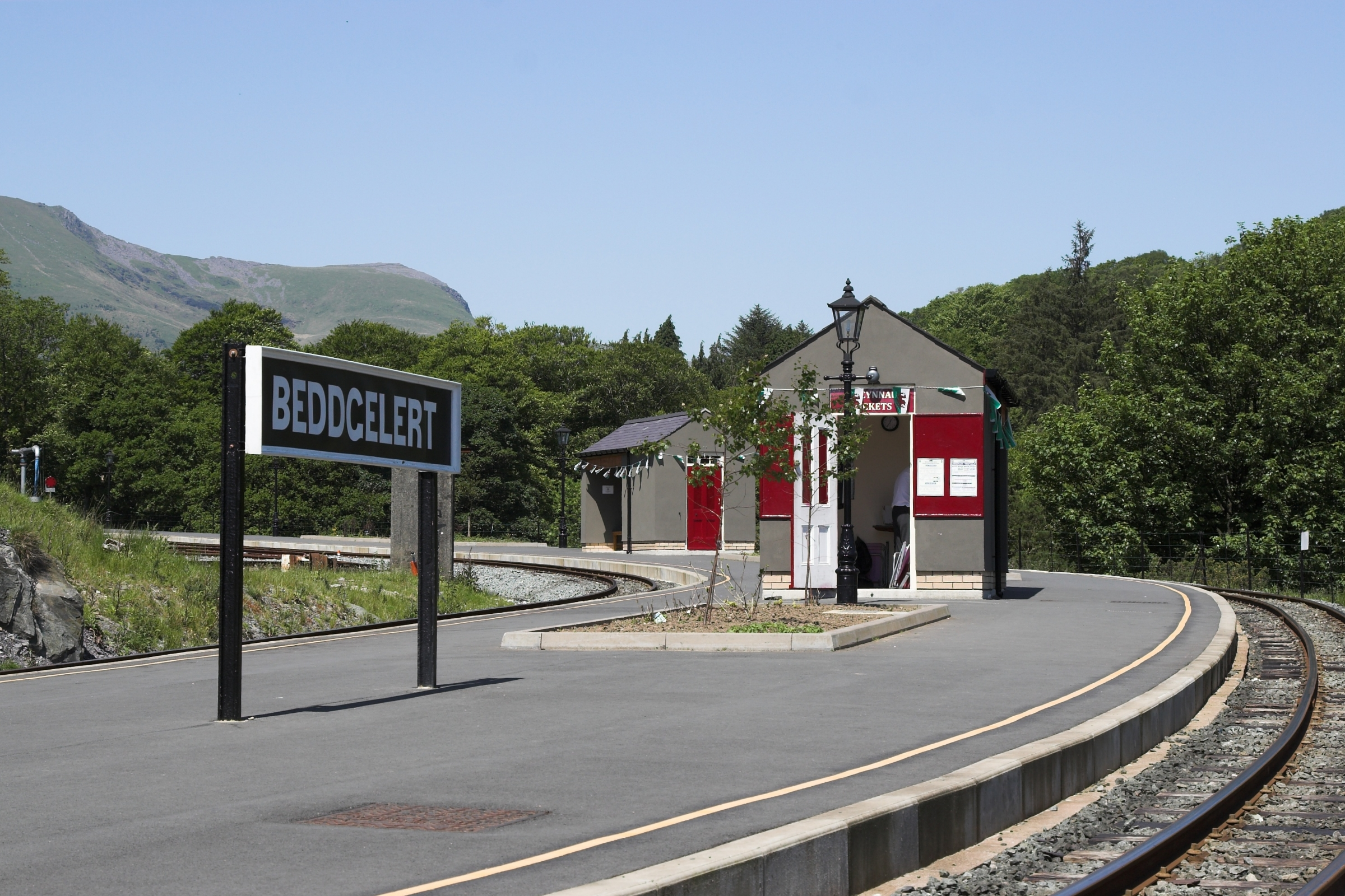 Welsh Highland Railway, Beddgelert station.